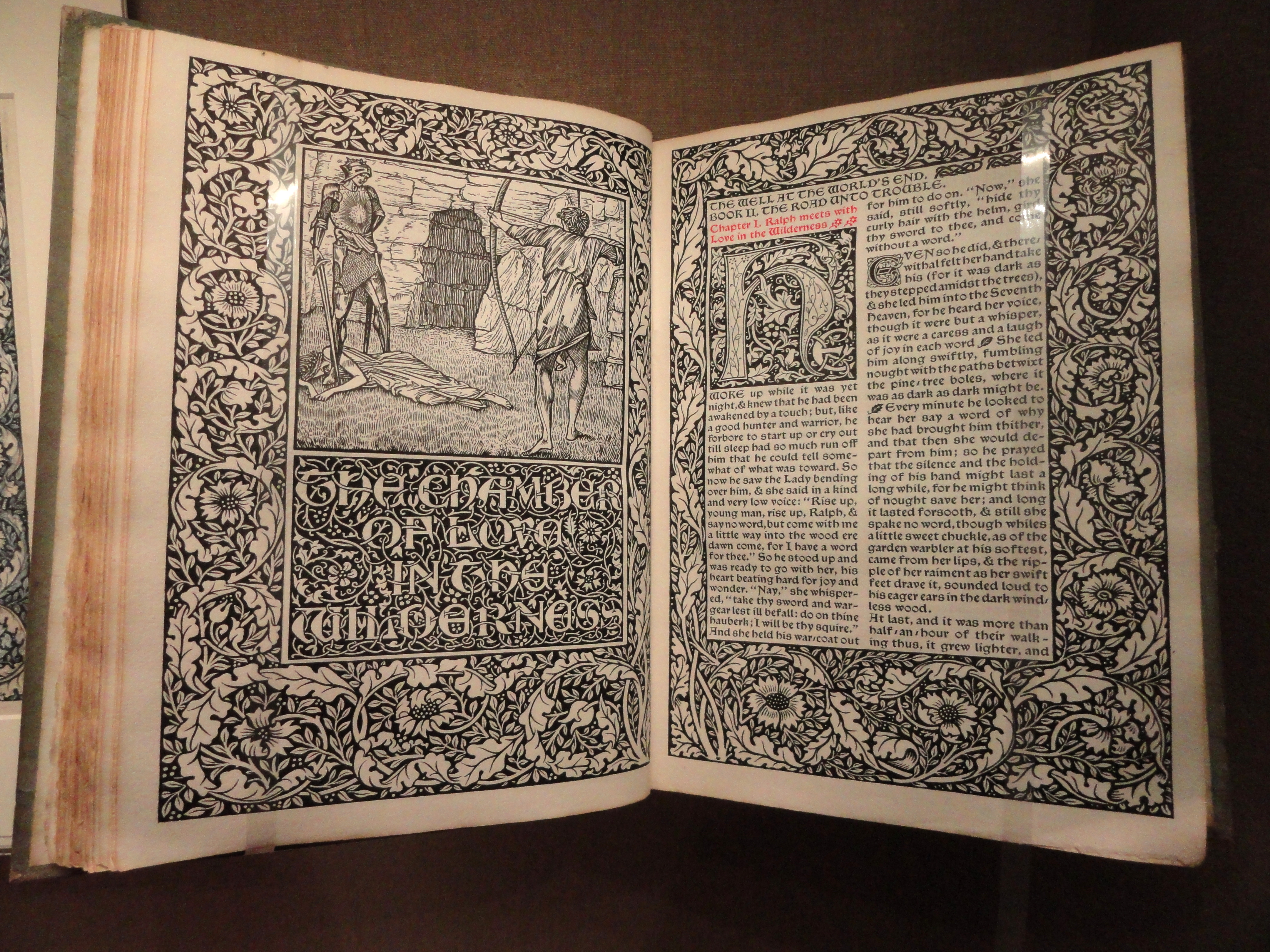 The Well at the World's End, design by William Morris, Hammersmith, Kelmscott Press, 1896. Manuscript exhibit in the National Gallery of Art, Washington, DC, USA. This work is in the public domain because the artist died more than 70 years ago.